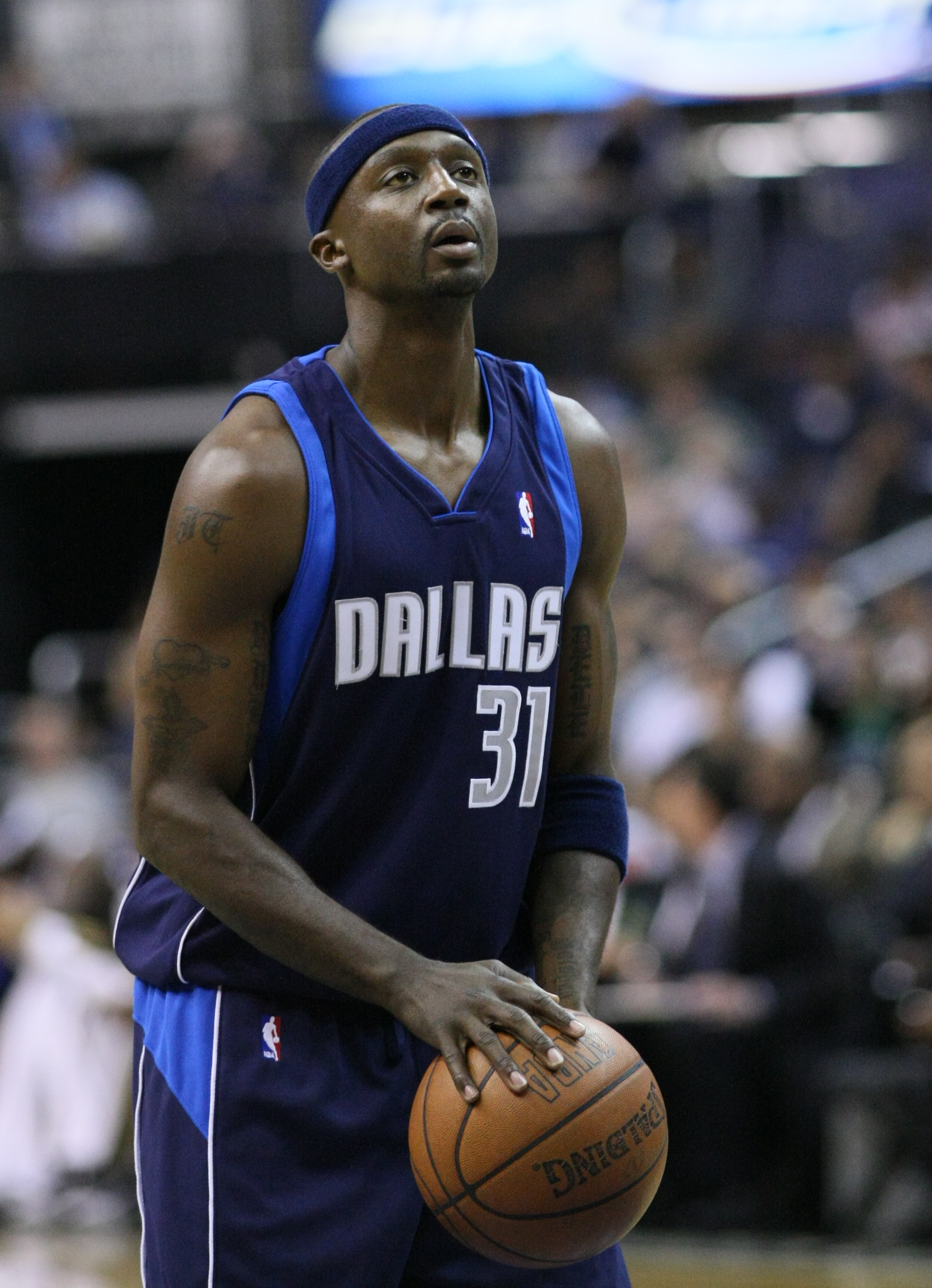 Jason Terry with the Dallas Mavericks, October 2009.